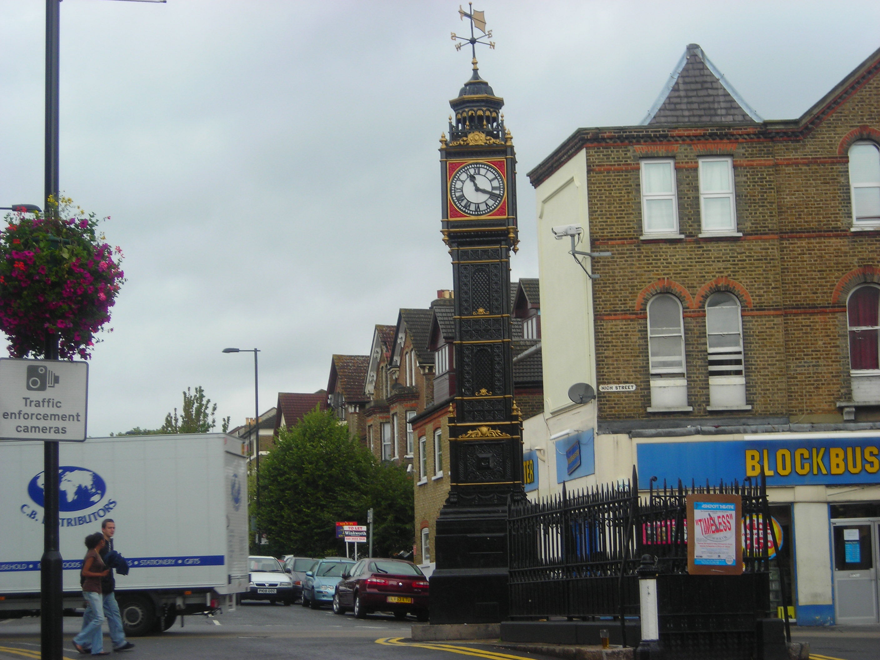 Picture of South Norwood Clocktower